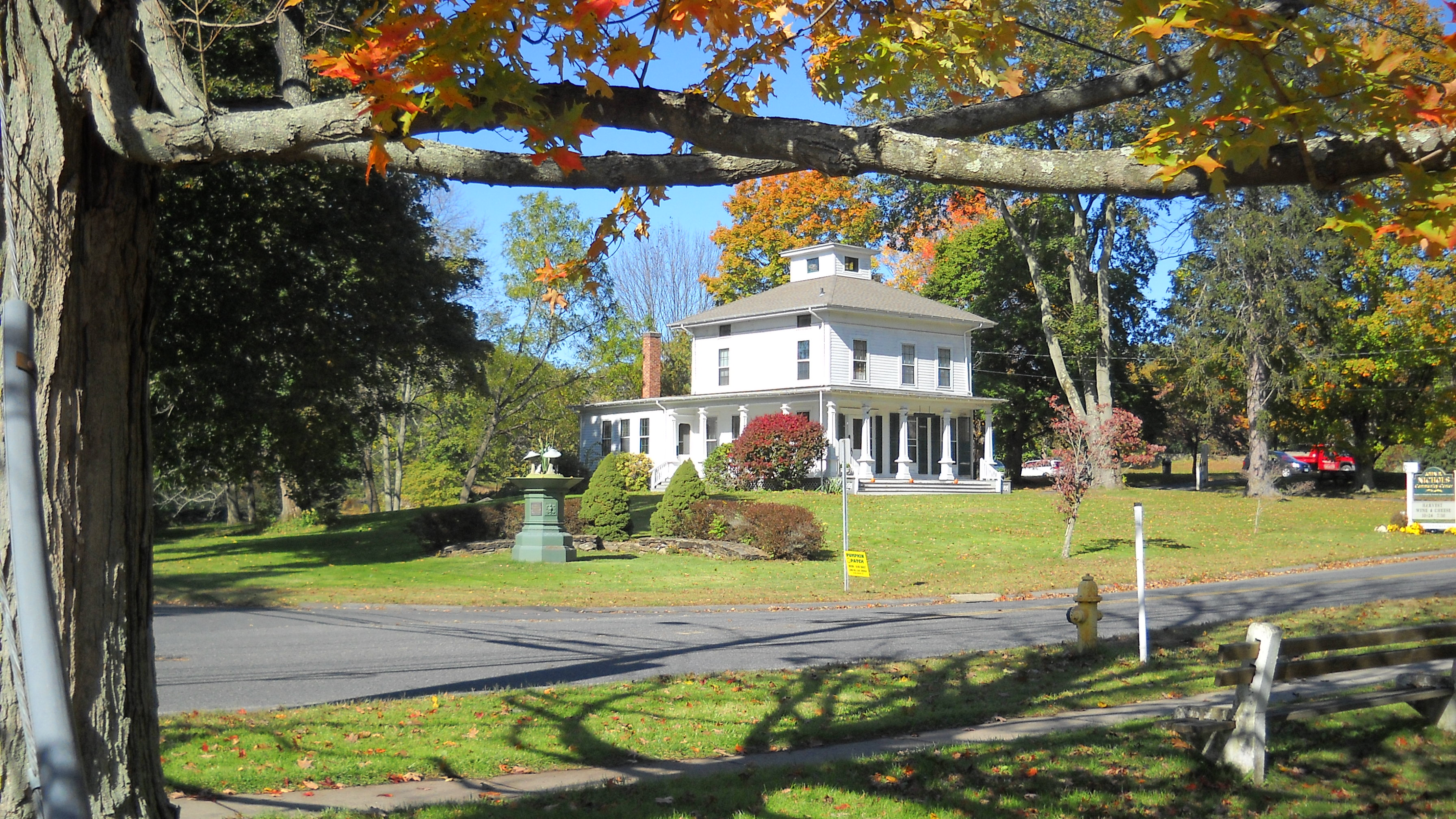 Bunny Fountain NIA